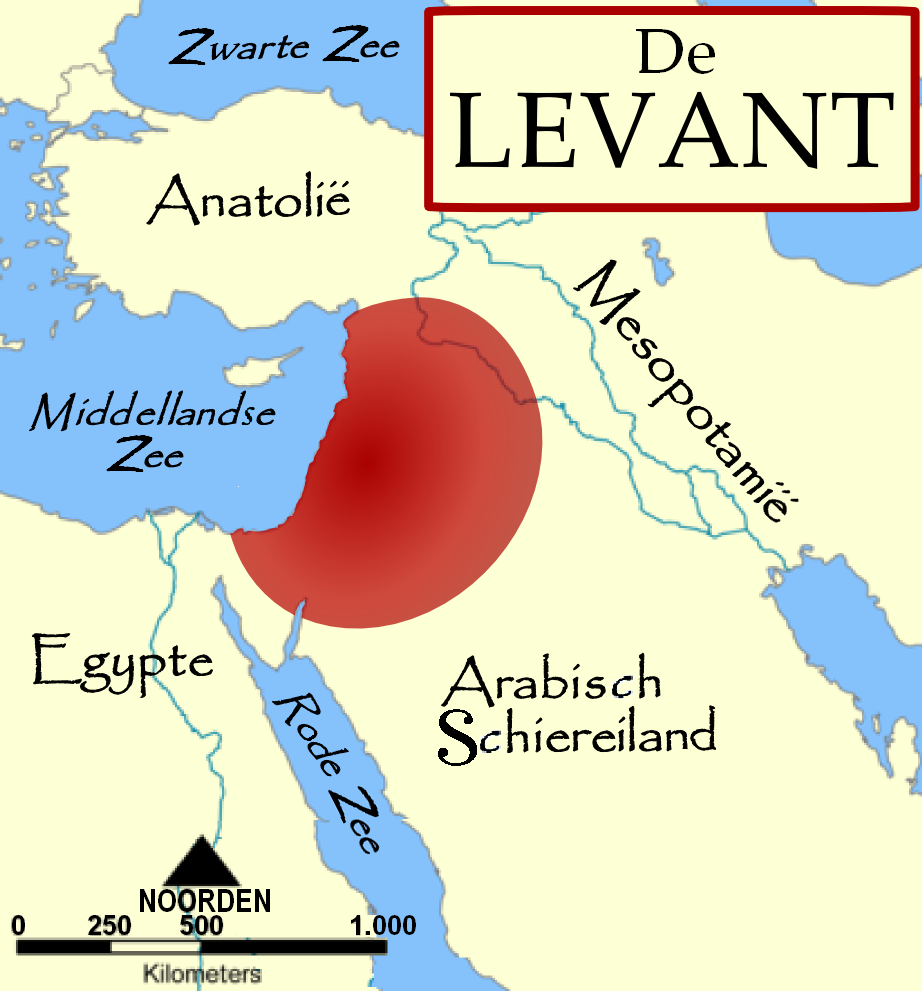 Dutch translation of Image:The Levant 3.png